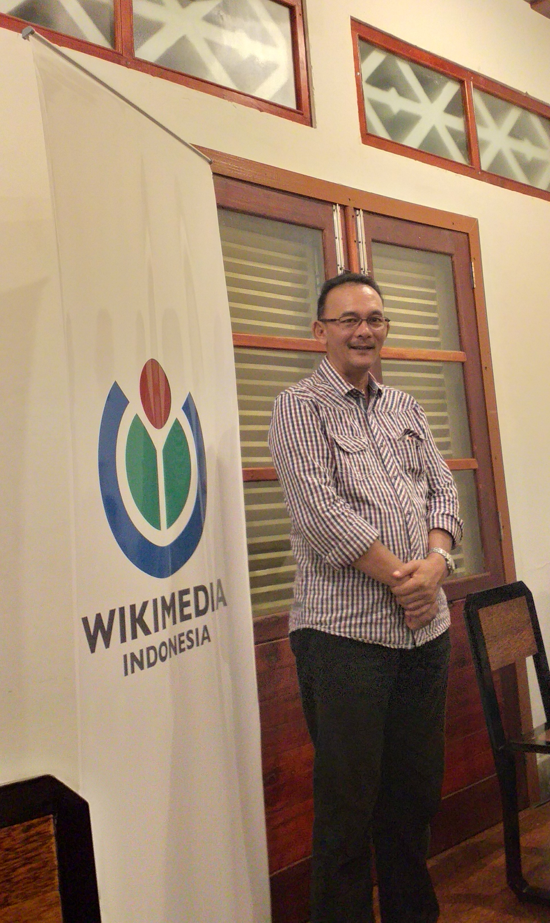 Hasril Chaniago, an Indonesian journalist, speaking at a Wikimedia event in Padang, West Sumatra.